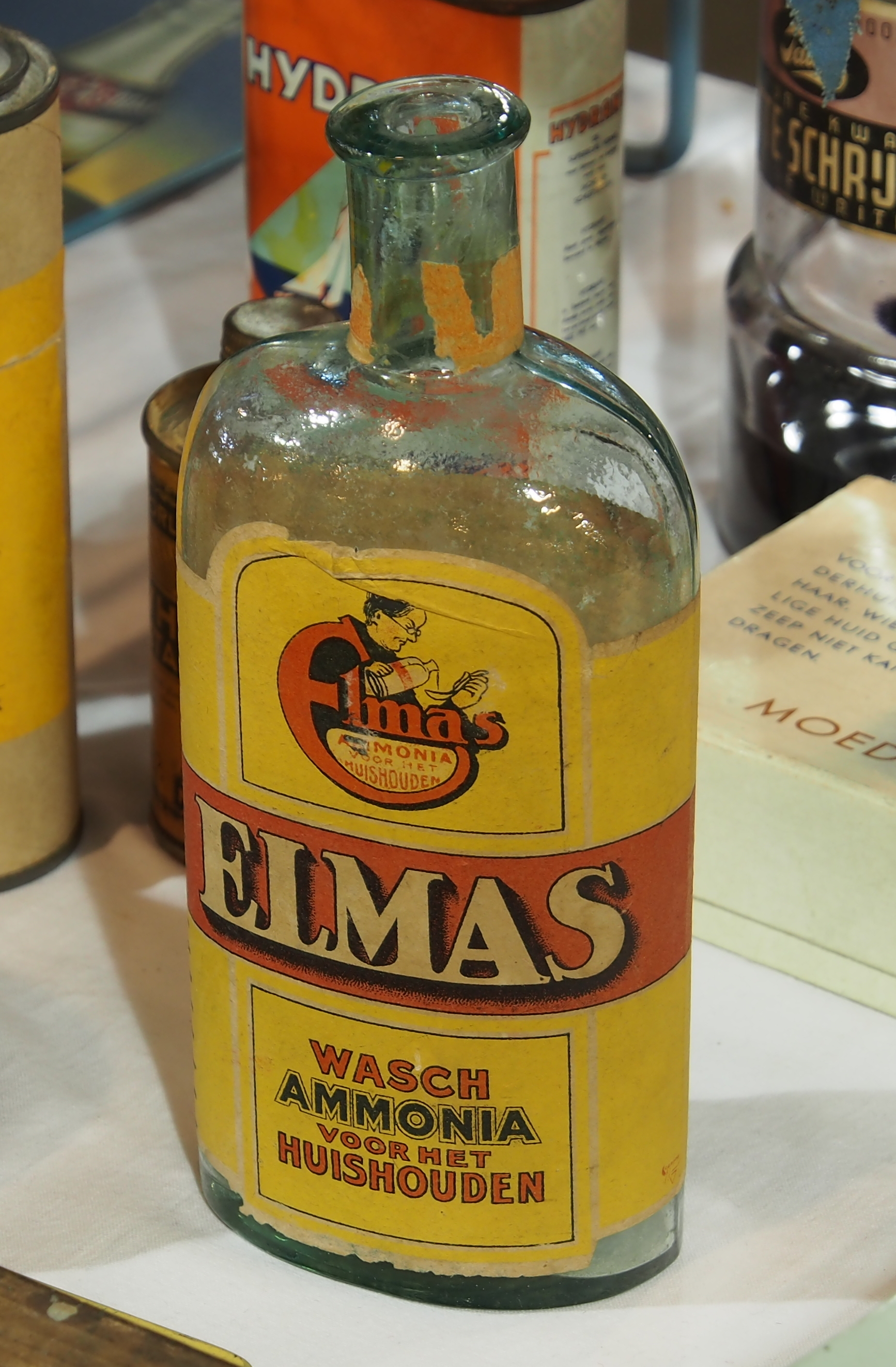 Old product that is not produced and not sold anymore for a very long time and the company does not exist anymore either.